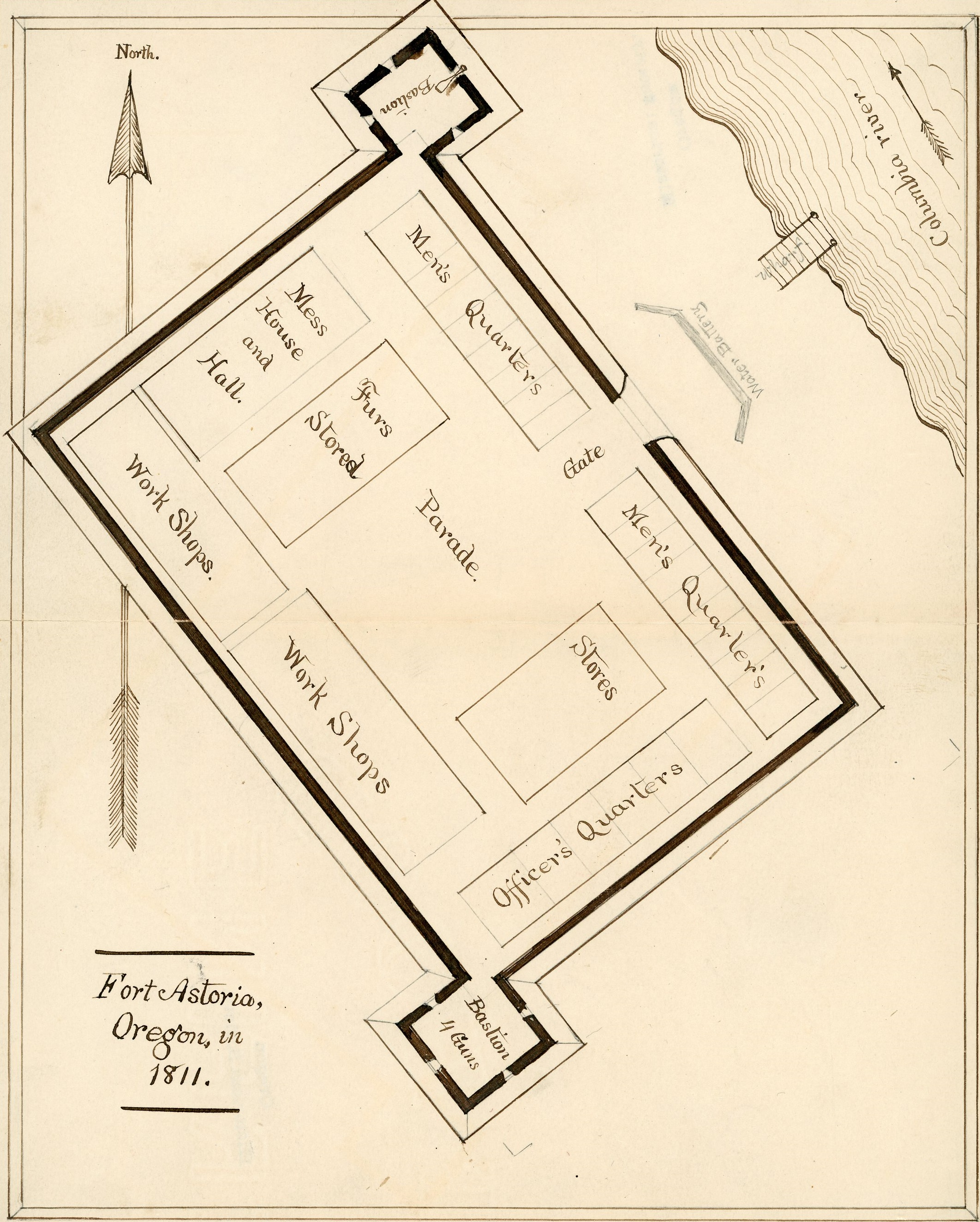 A map of the Fort Astoria compound in 1811.